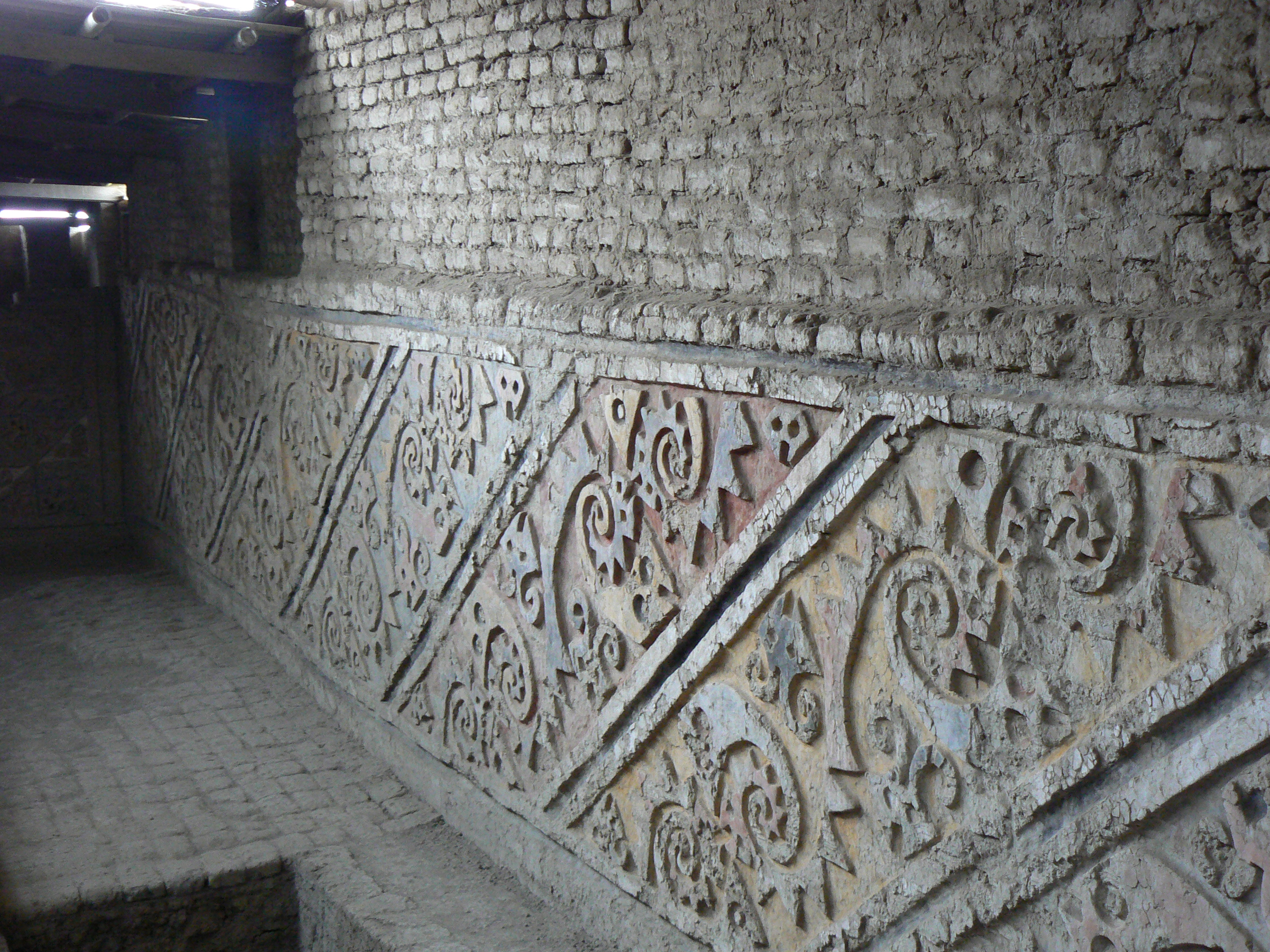 Polychome adobe bas-relief at El Brujo, a Moche culture site north of Trujillo, Peru.